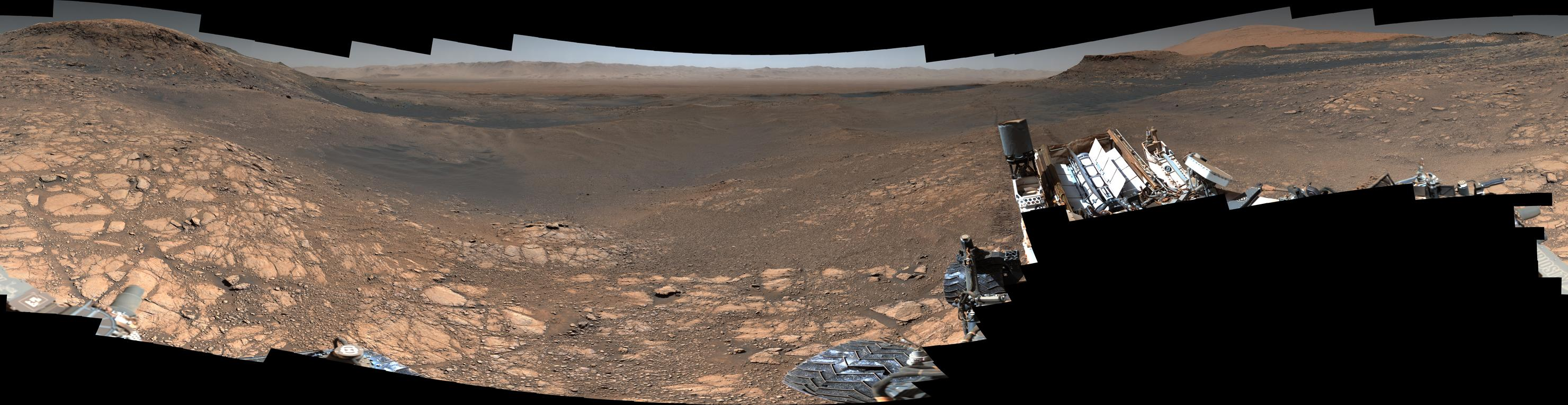 360-degree panorama of Mars near Mount Sharp taken by the Curiosity Rover's Mastcam. Image is reduced version of full 1.8 billion pixel image composed of over 1000 images taken between Nov. 24 and Dec. 1, 2019.